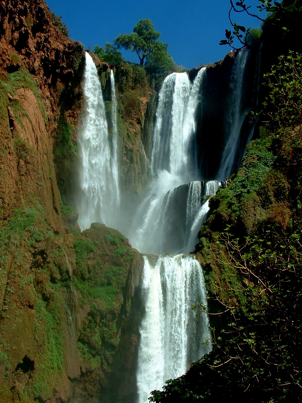 A photo of the Cascades d'Ouzoud in North/Central Morocco in full-ish flow.